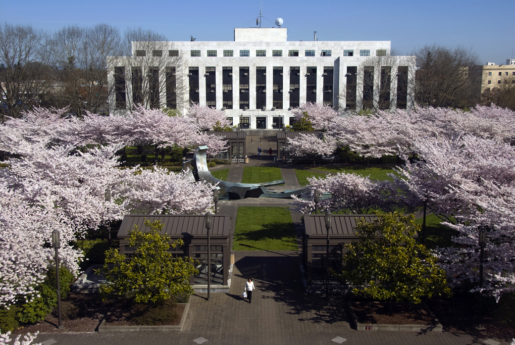 Gary Weber of Oregon DOT's Photo Video section took this photo of Oregon DOT's headquarters in Salem, Oregon on a beautiful spring morning.